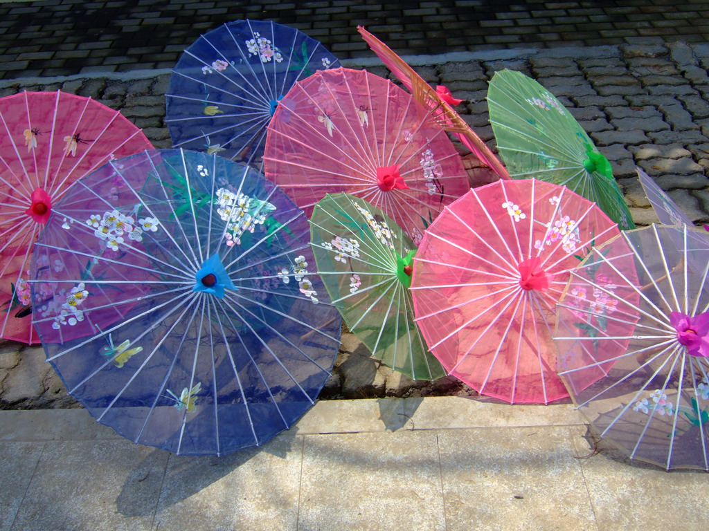 Parasols in Wuhan, China. Photo by Bruce Lee. CC License. The umbrella was made in the Wei Dynasty in China.